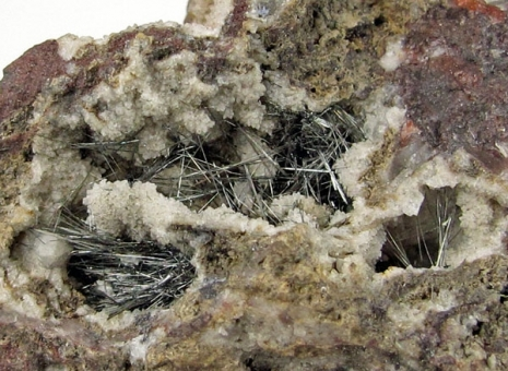 Bismuthinite (Size 5.8 x 4.7 x 3.7 cm) Locality: Cornwall, England, UK Splendent, metallic bismuthinite needles to 7 mm line three, adjacent, quartz-lined vugs on this classic and excellent, old-time specimen from the historic mines of Cornwall. Ex. Robert Whitmore Collection. It comes with two old labels, including one from the famous British dealer Bryce Wright dating from 1866-1874 by its style, with matching number on the specimen to prove they go together. Wright was among the most prominent English mineral dealers in the mid 19th Century. One rarely sees surviving Wright labels.